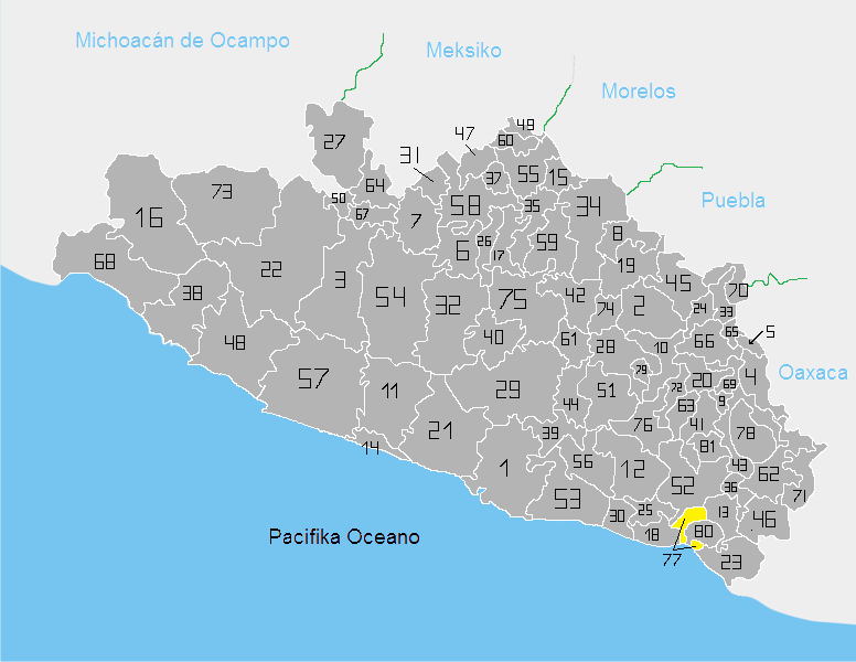 locator map 077, Guerrero, Mexico